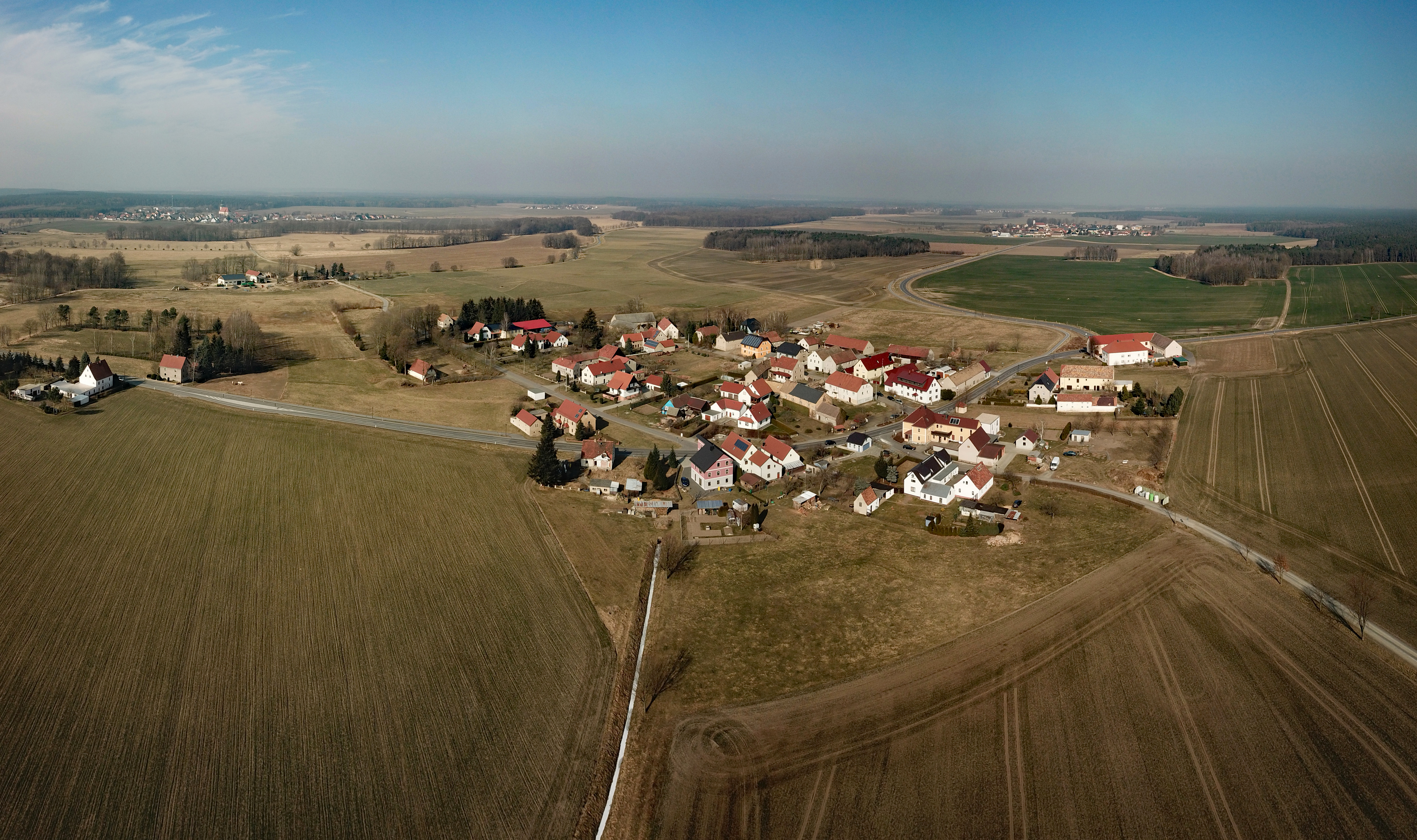 Naußlitz (Ralbitz-Rosenthal, Saxony, Germany) Hornjoserbsce: Powětrowy wobraz Nowoslic